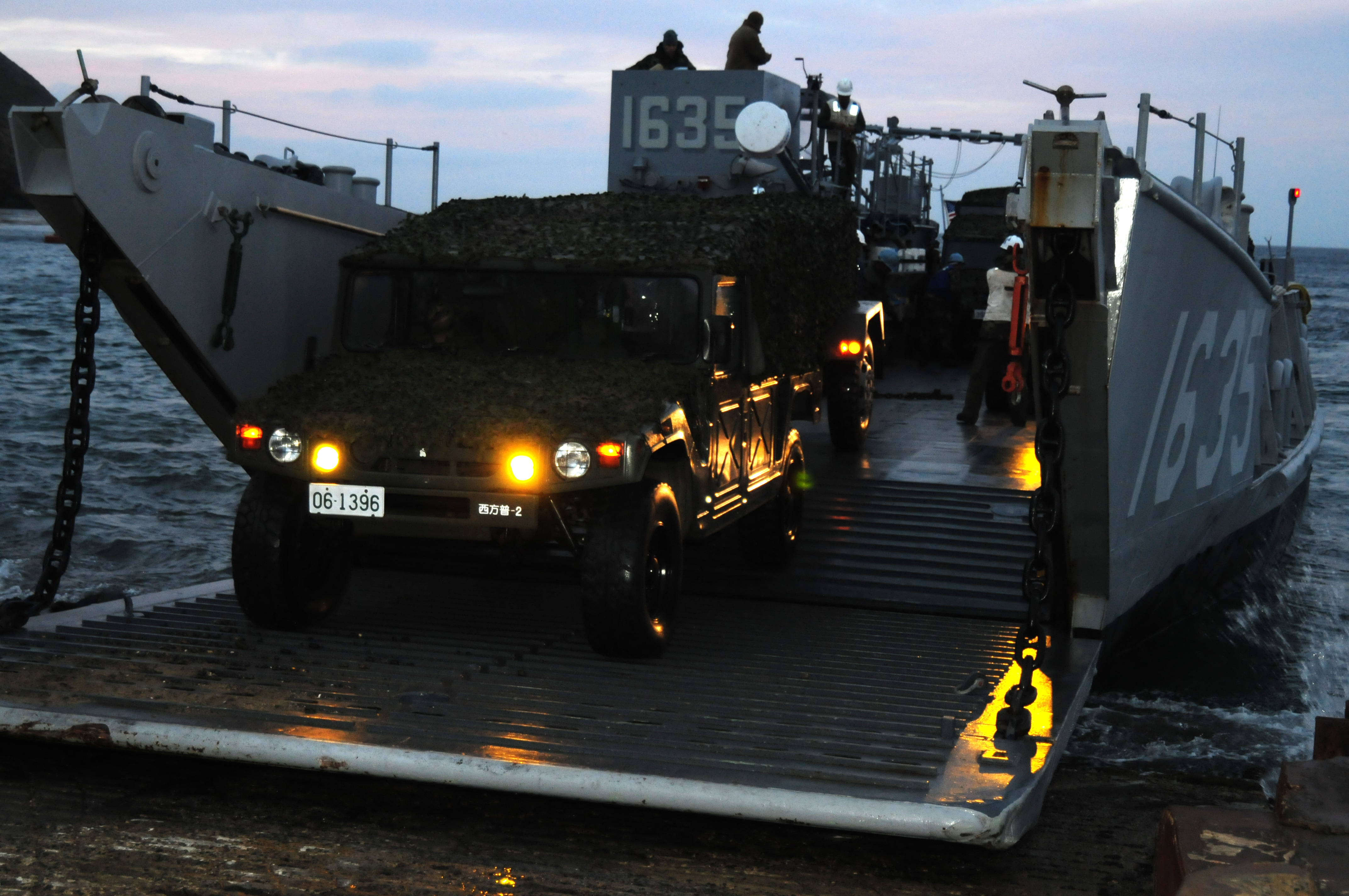 SAN CLEMENTE ISLAND, Calif. (Feb. 10, 2012) Members of the Japan Ground Self-Defense Force exit Landing Craft Utility (LCU) 1635, embarked aboard the amphibious assault ship USS Peleliu (LHA 5), on San Clemente Island during a beach landing exercise with Marines from the 15th Marine Expeditionary Unit (15th MEU) during Exercise Iron Fist 2012. Iron Fist is a training exercise between U.S. Marines and the Japan Ground Self-Defense Force designed to increase interoperability and amphibious capabilities throughout the U.S. 3rd and 7th Fleet areas of responsibility. (U.S. Navy photo by Mass Communication Specialist 2nd Class Michael J. Thompson/Released)